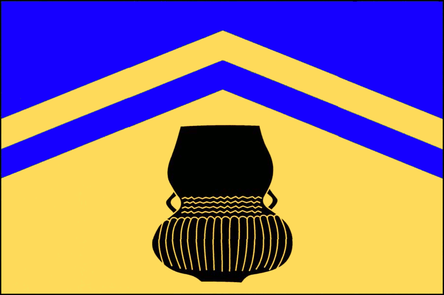 Municipal flag of Knovíz village, Kladno District, Czech Republic.